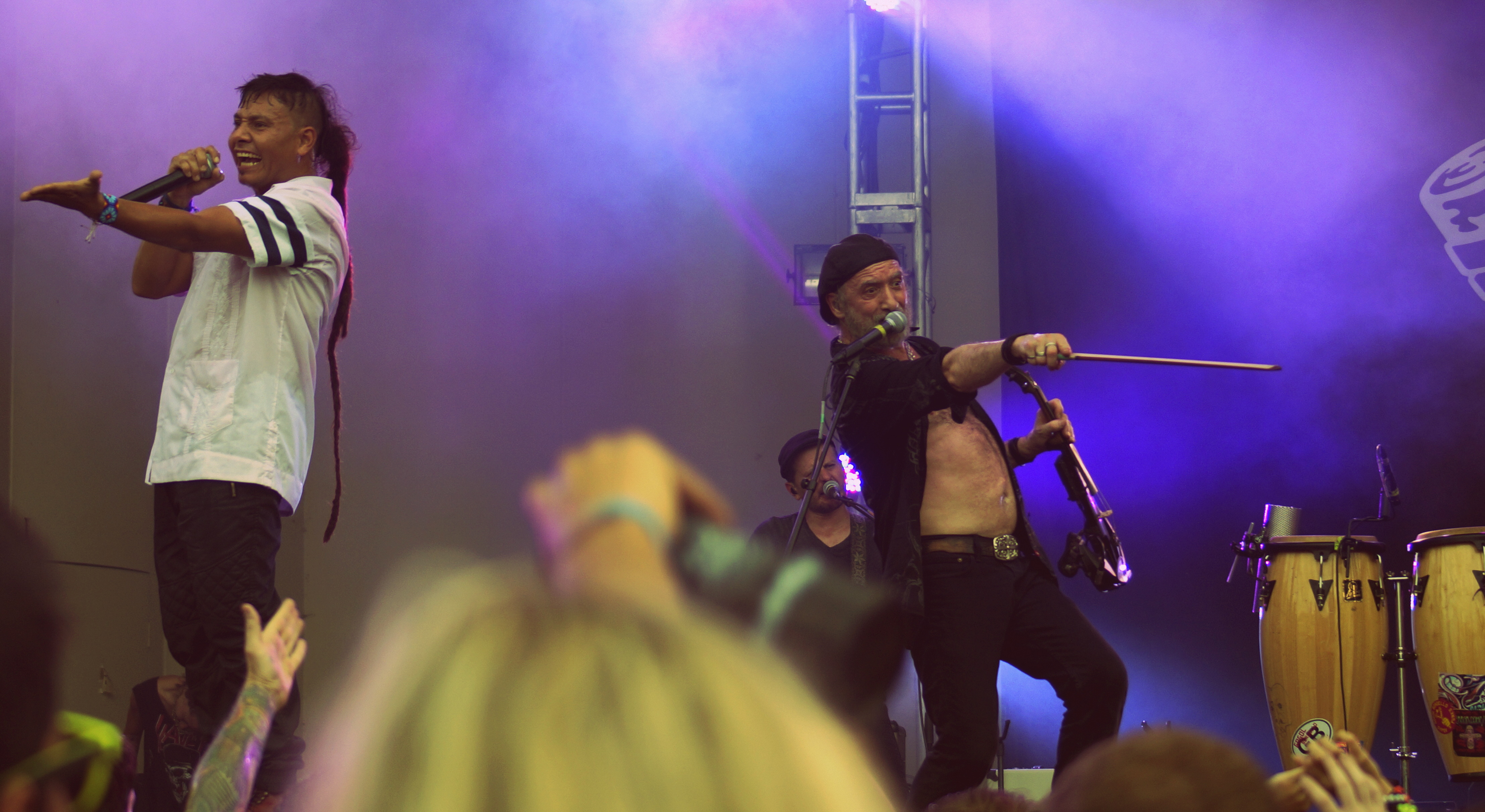 Pedro Erazo and Sergey Ryabtsev of Gogol Bordello at Lollapalooza 2015 in Chicago. More freely usable Lollapalooza 2015 Pictures.